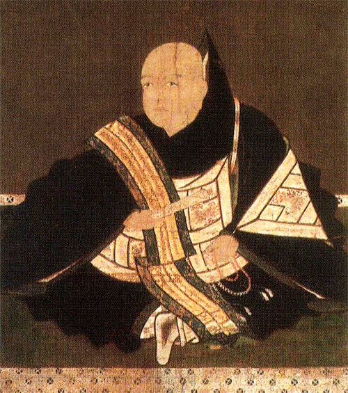 A portrait of Junkei Tsutsui